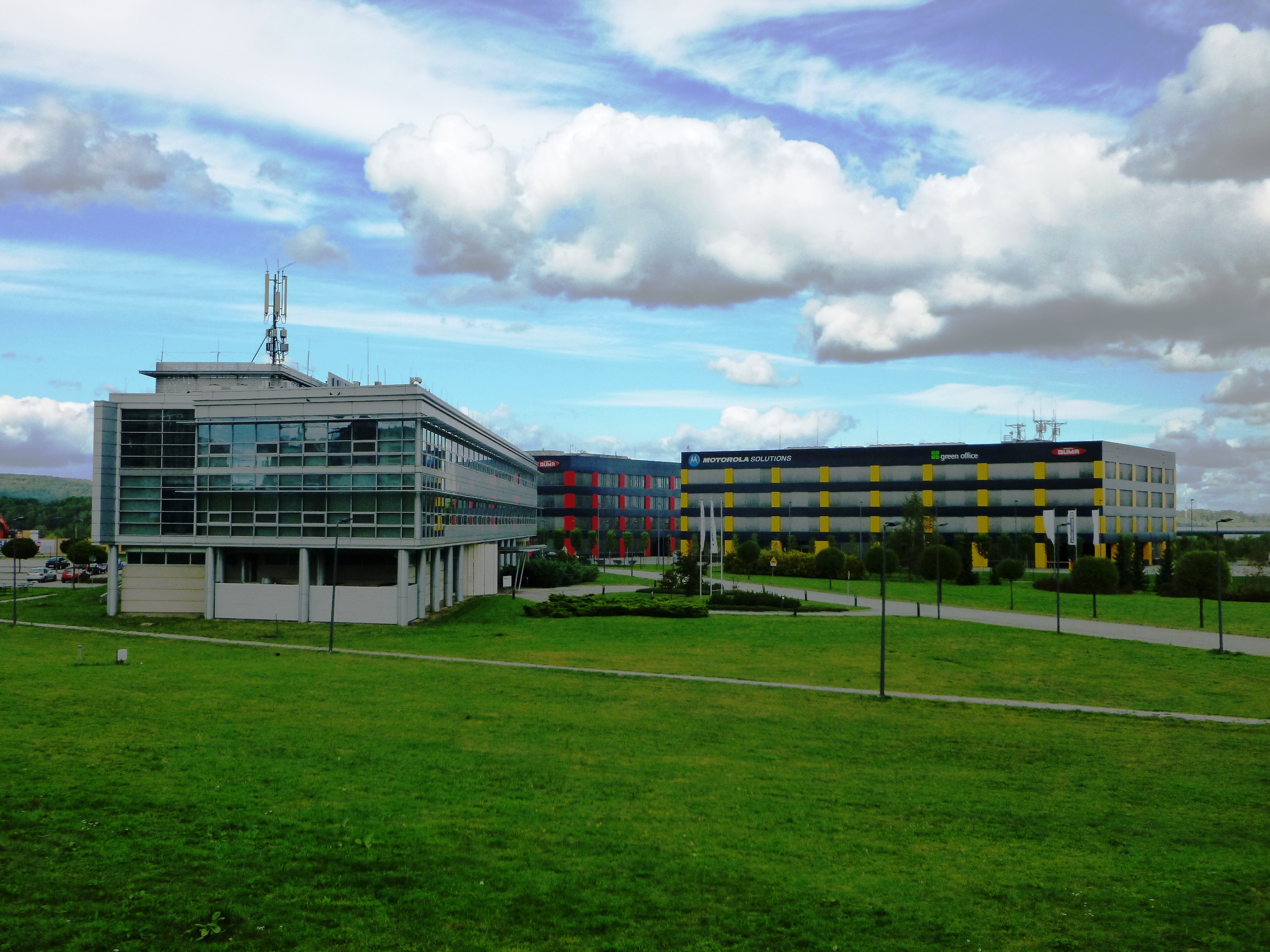 Krakow Special Economic Zone - Nokia Networks & Motorola Solutions offices